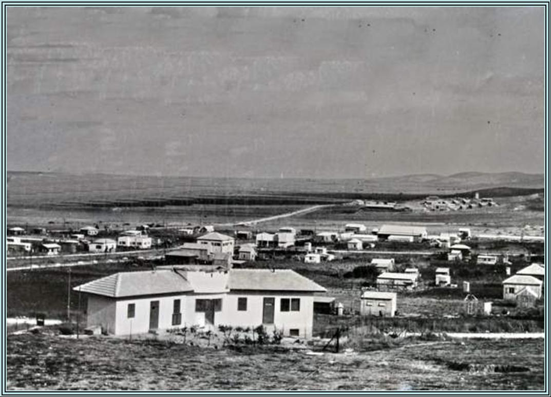 Yokneam, Settlements in Israel